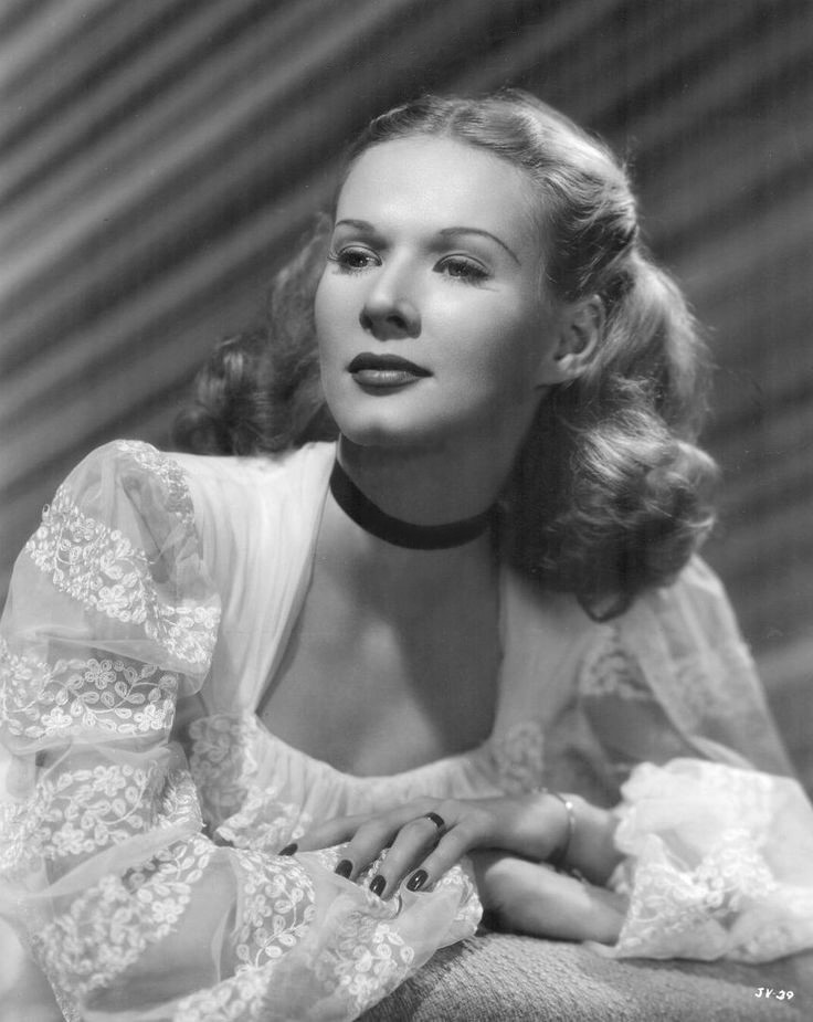 Publicity photo of June Vincent (1920 - 2008)